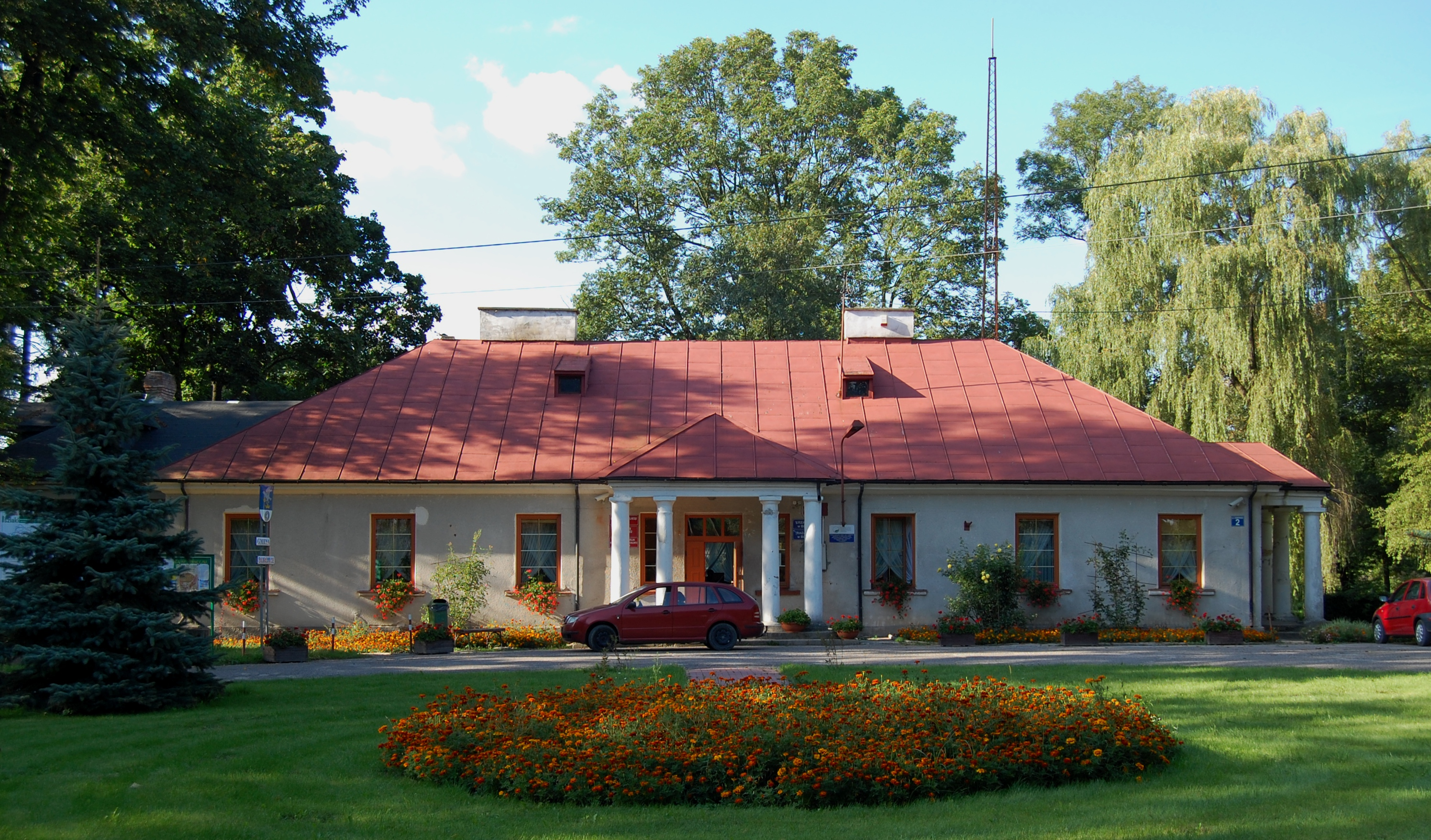 Manor house in Borowie, Masovian Voivodeship, Poland. Building seats now Gmina Borowie office.